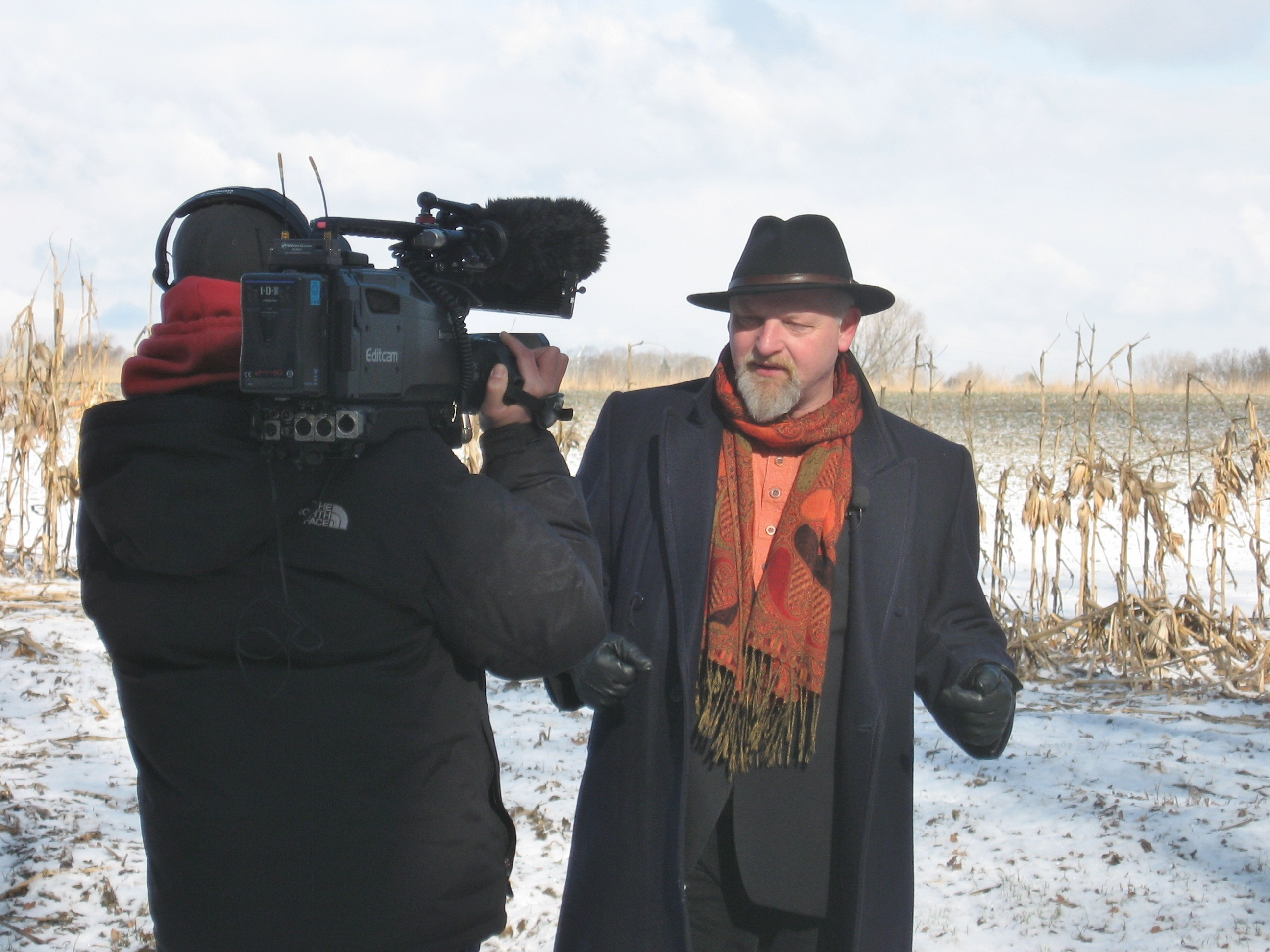 Danish historian and lecturer Kåre Johannessen during shooting of Kåres Danmarkshistorie (Kåre's History of Denmark).